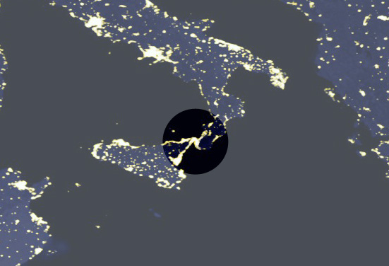 Composite image of the Earth at night.